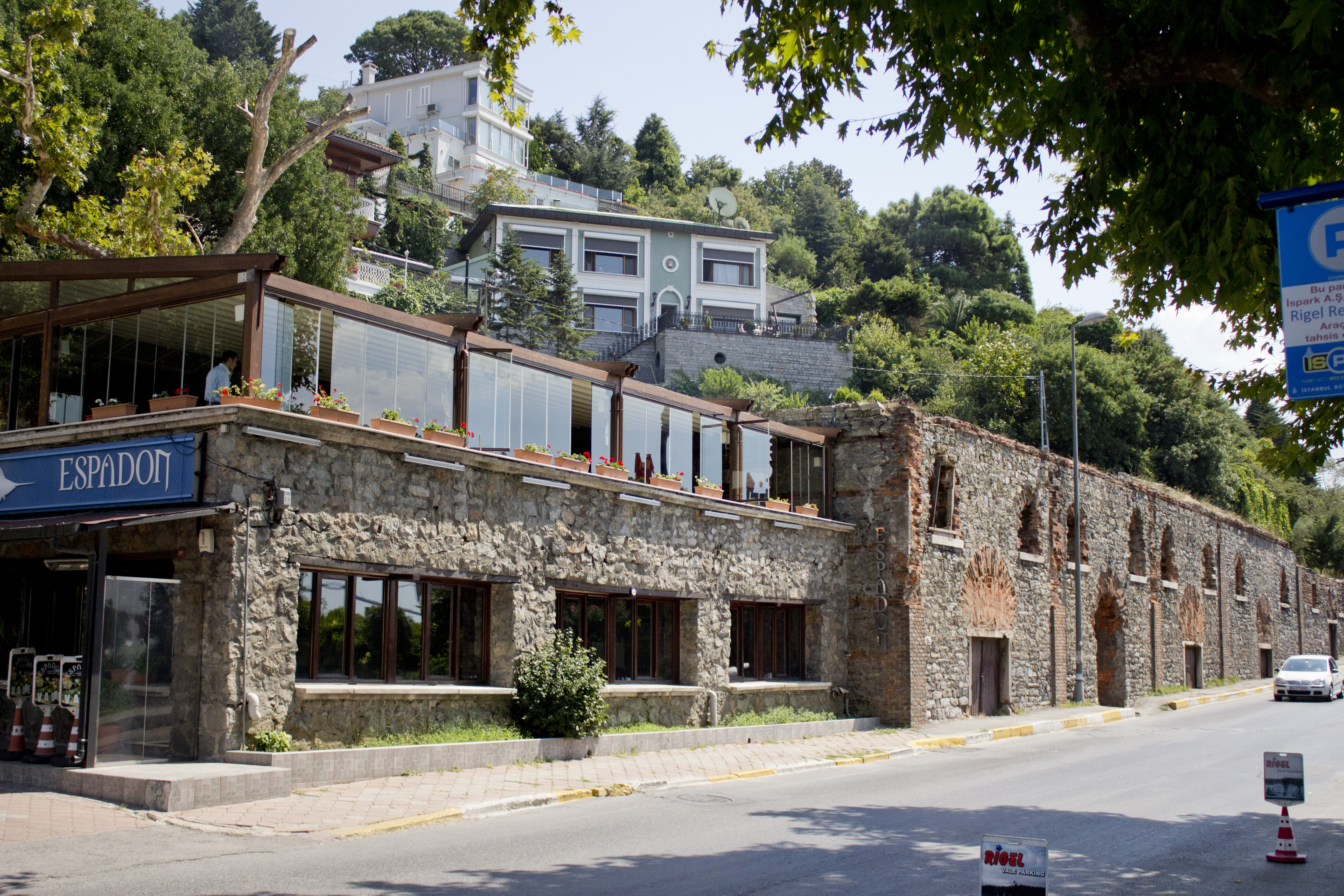 One of the old warehouses of Paşalimanı